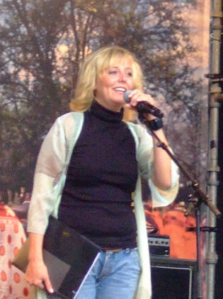 Norwegian actress Linn Skåber